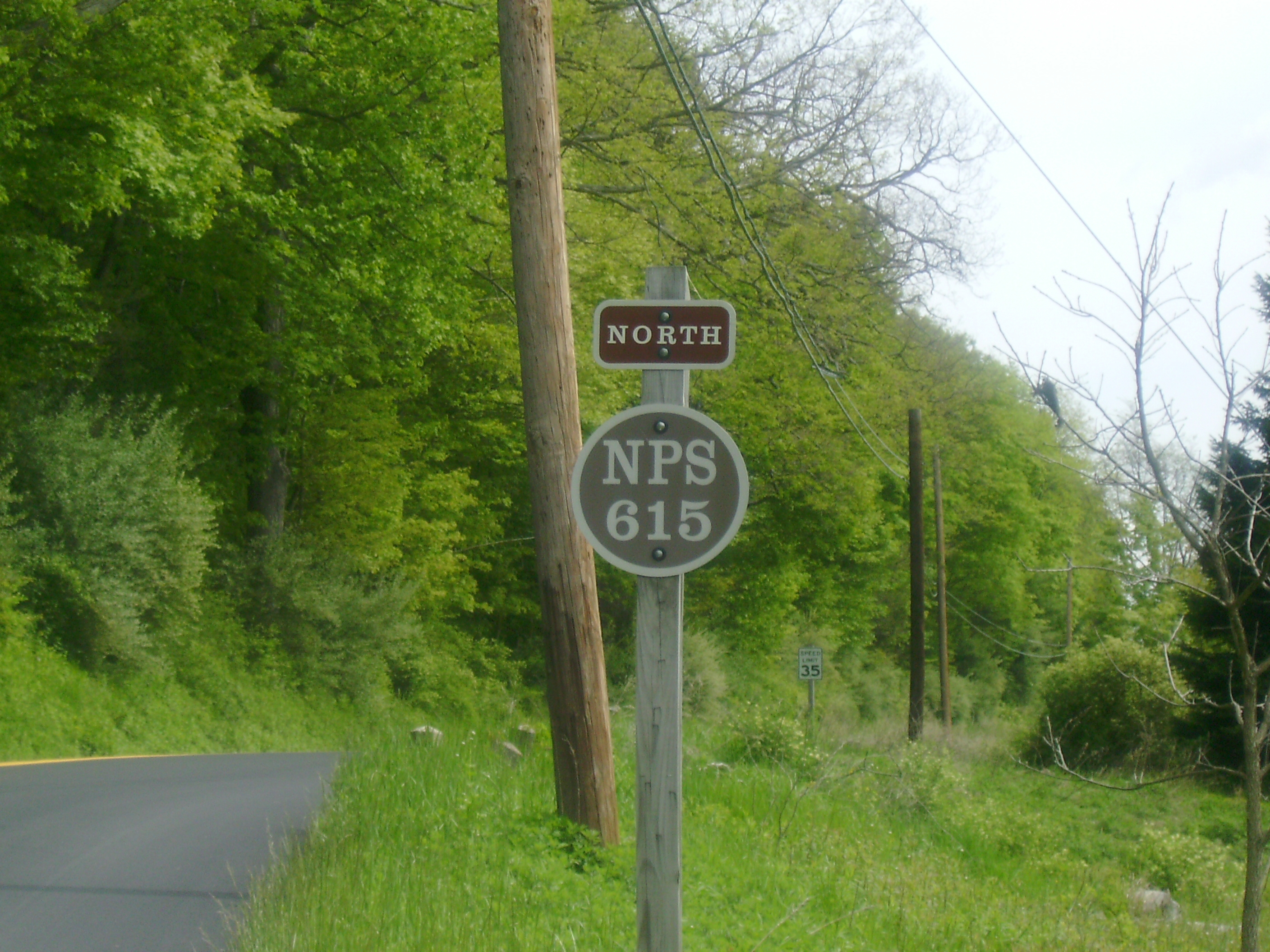 Image of a National Park Service Road 615 shield in Walpack Center, NJ